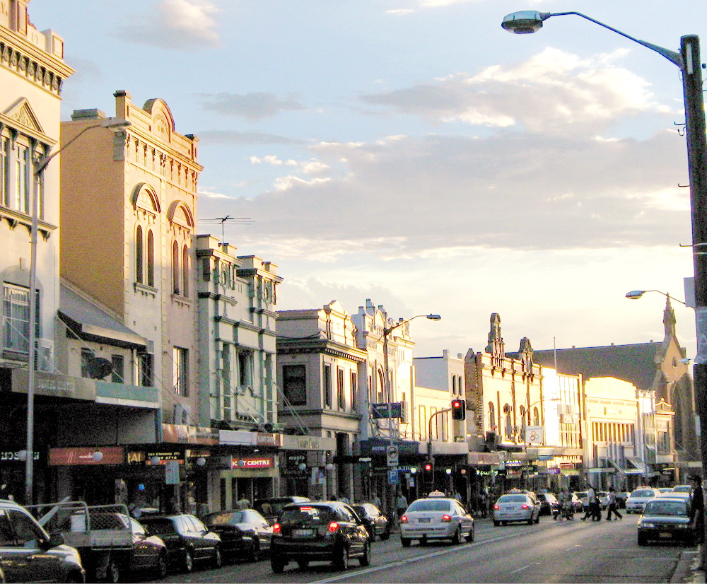 King Street in Newtown